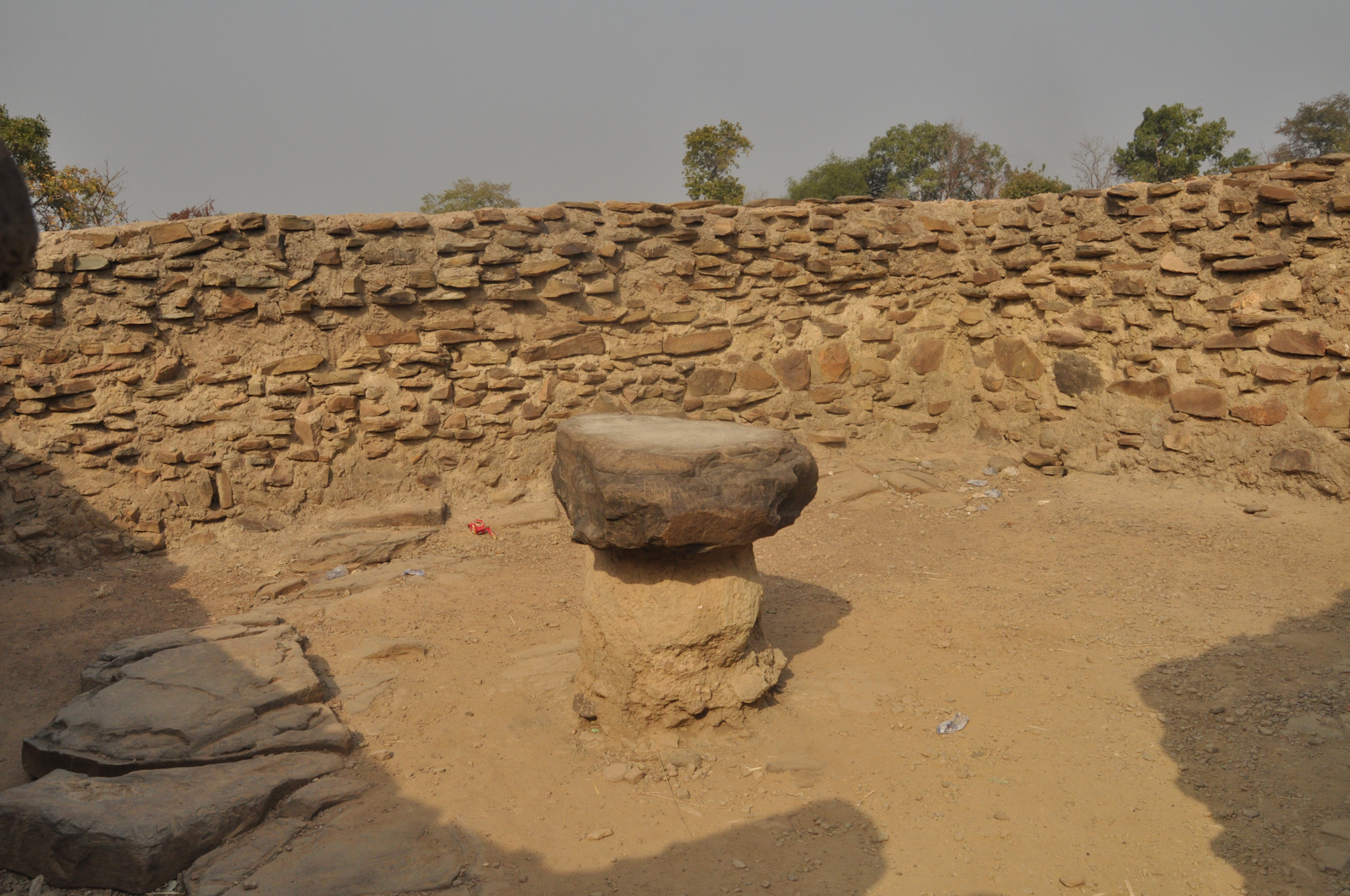 The wall was recently constructed around the Mystic stone